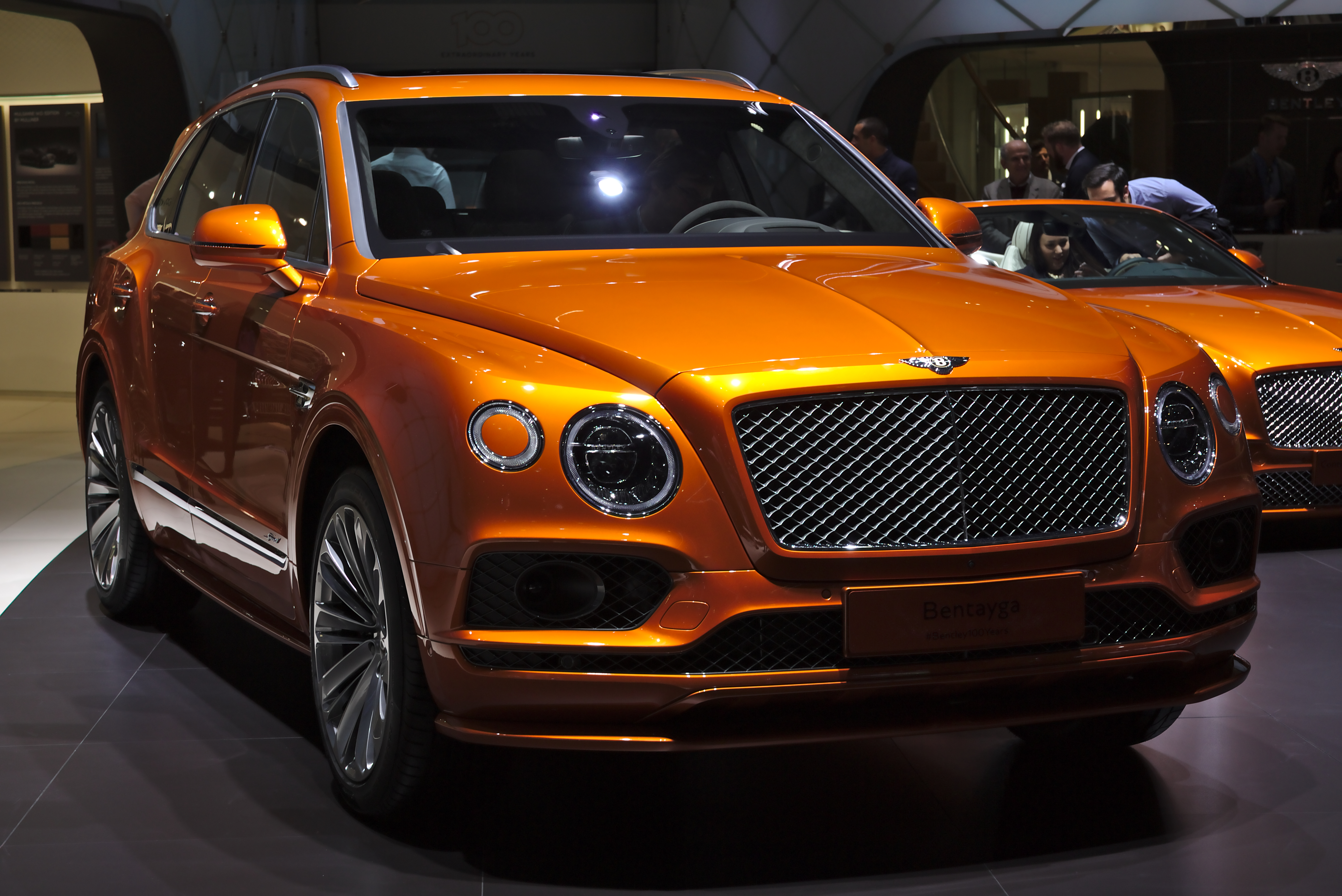 Bentley Bentayga Speed at Geneva Motor Show 2019